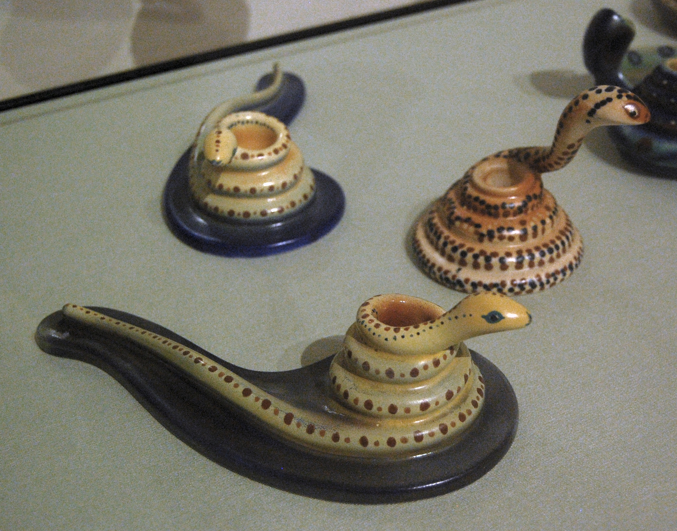 Earthenware designed by Amp Smit